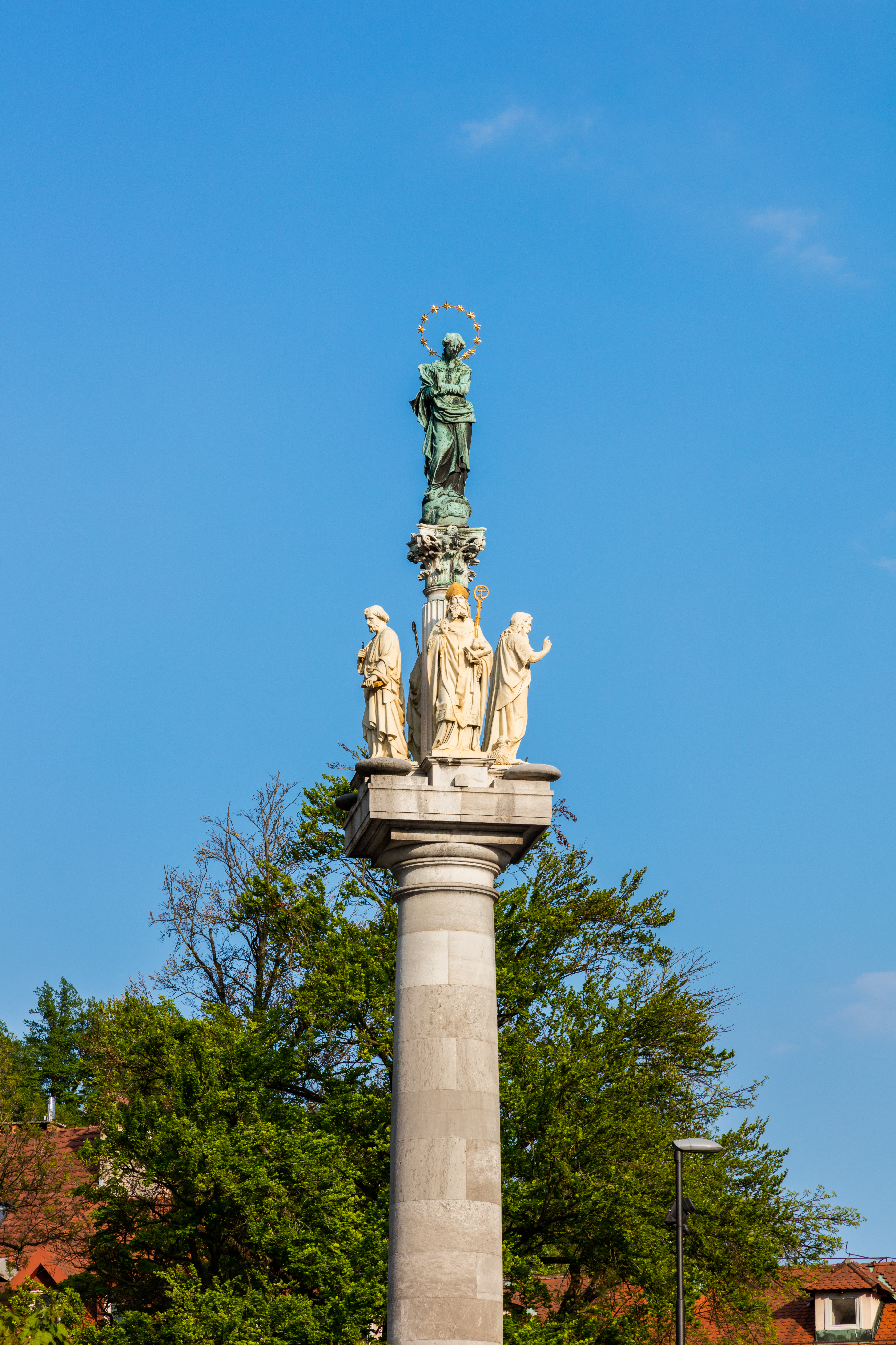 St. Mary's Column, Ljubljana, Slovenia